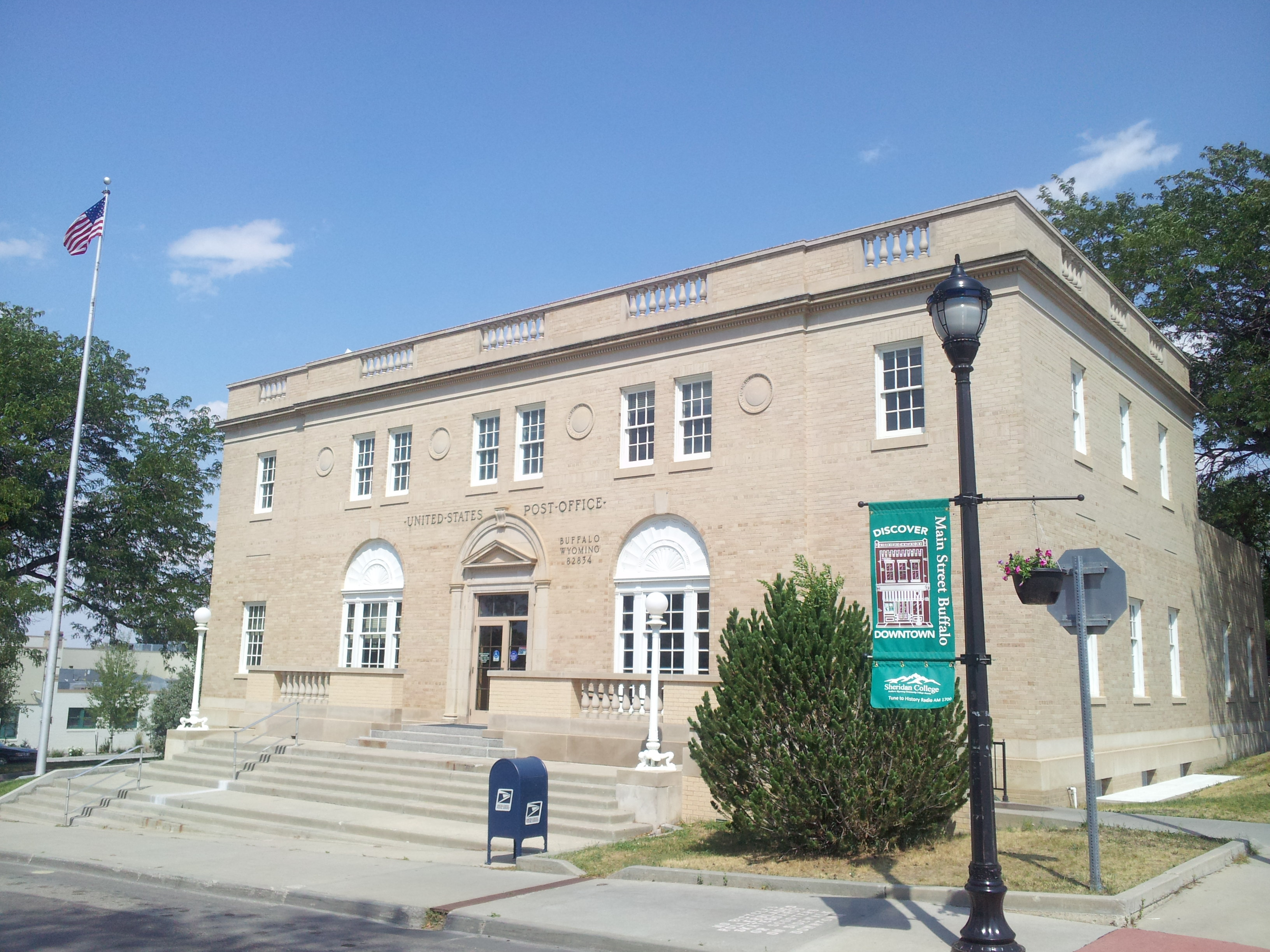 US Post Office on Main Street in Buffalo, Wyoming